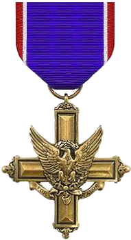 Distinguished Service Cross.